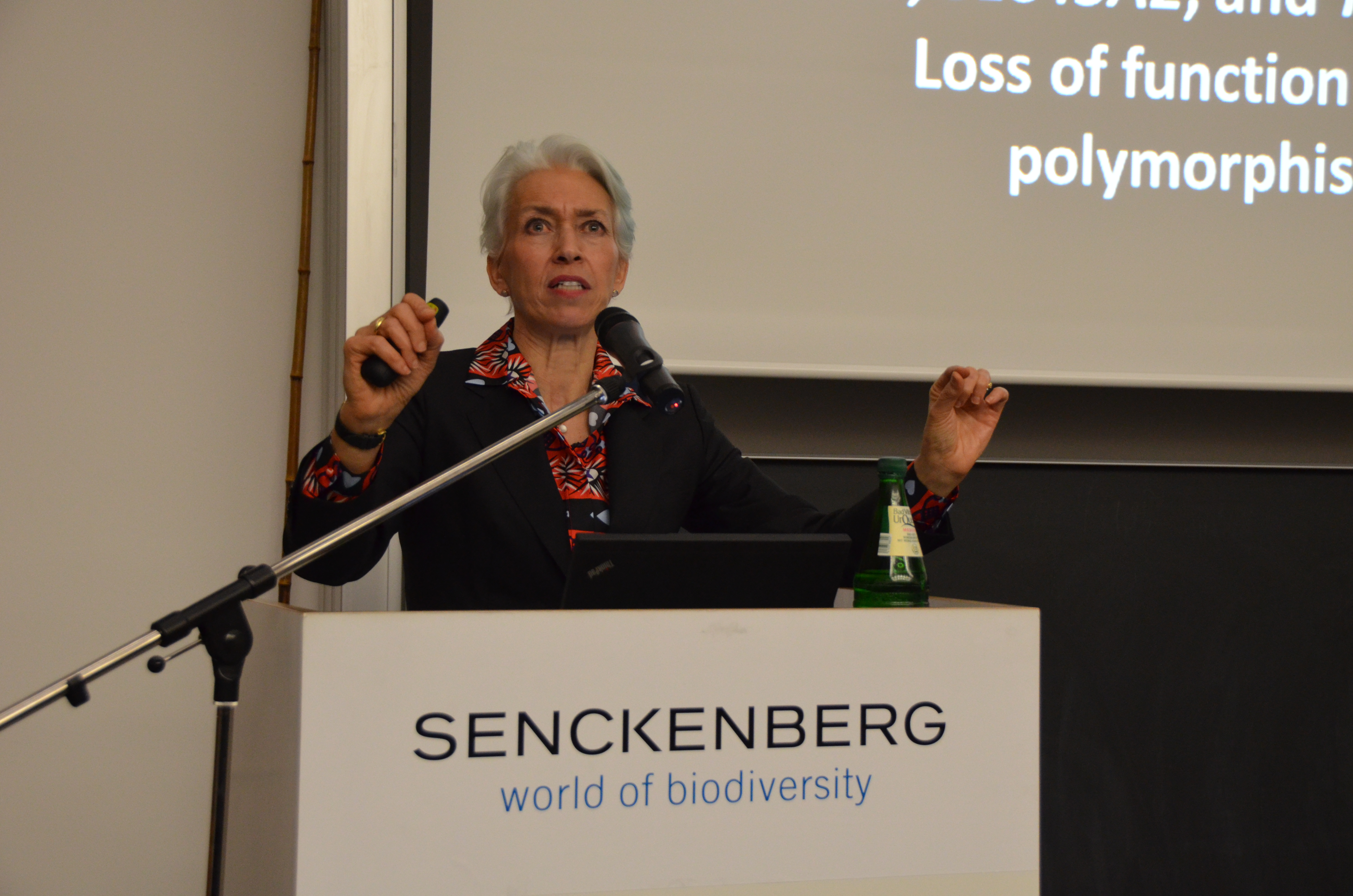 Nina Jablonski, Evan Pugh Professor of Anthropology, Department of Anthropology, The Pennsylvania State University during a public lecture at BIK-F in Frankfurt, Germany